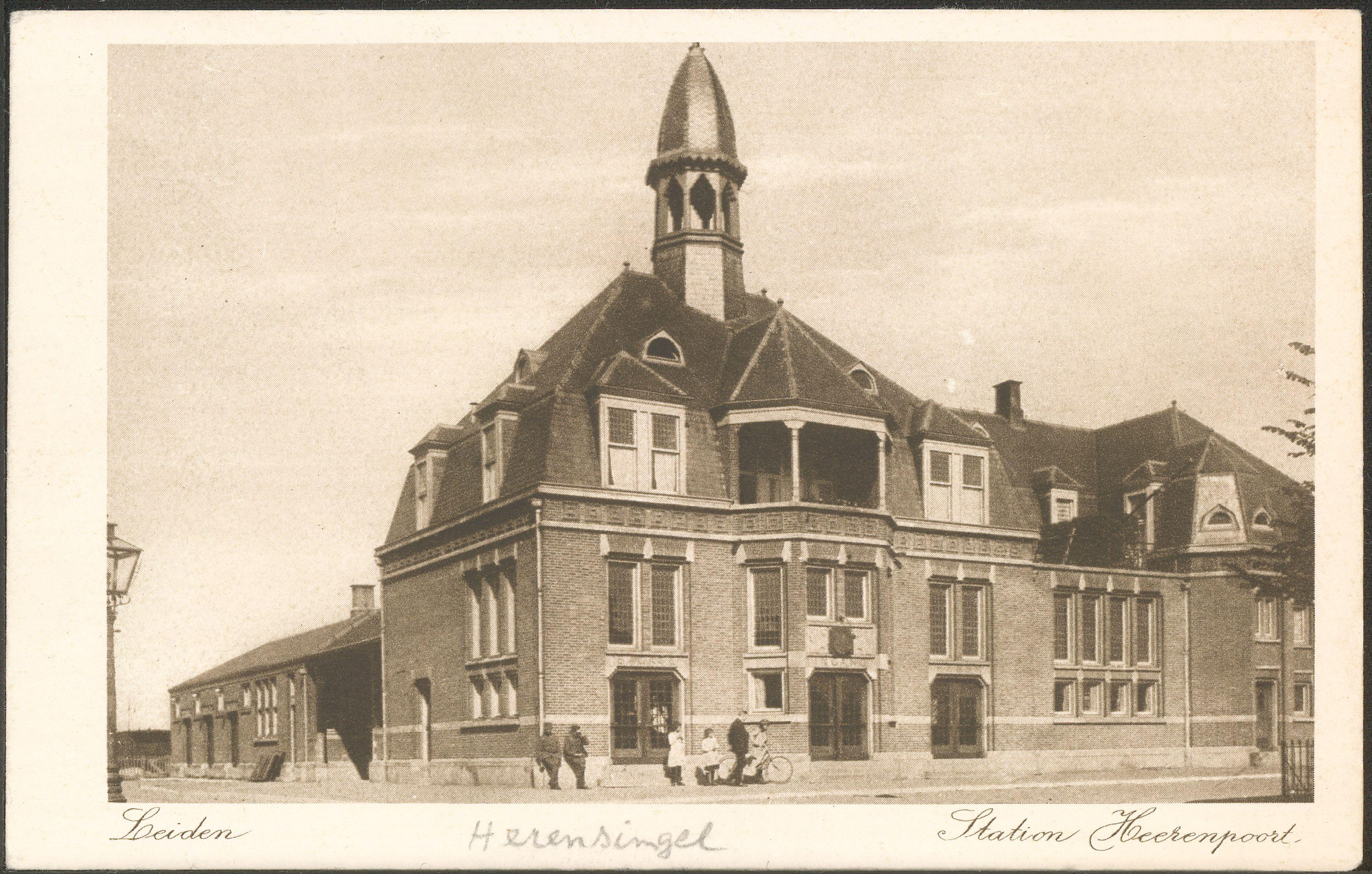 Former railway Station Leiden Heerensingel, Leiden. Architect: Karel de Bazel. Old postcard, Archief Leiden PBK2119. "Station Heerenpoort".